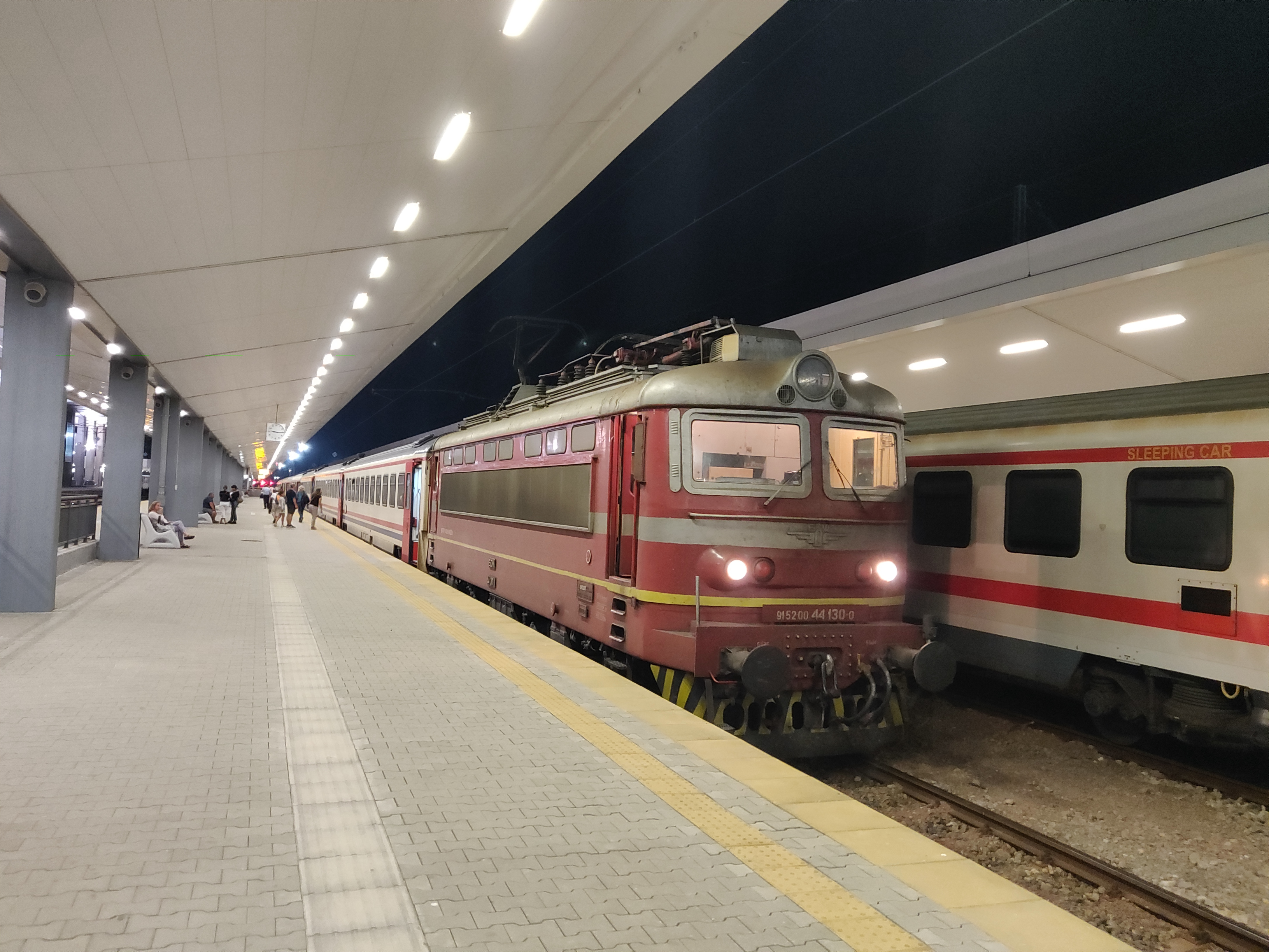 The eastbound Istanbul-Sofia Express waiting to depart Sofia Central Station with a BDZ class 44 electric locomotive leading.